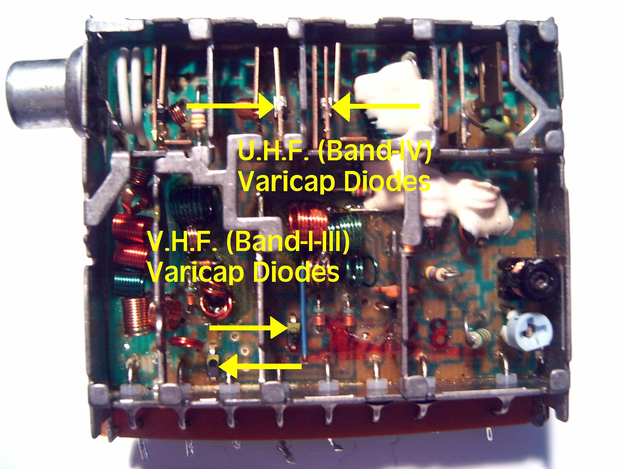 Picture of varicap tuned Television Band I-III and U Tuner with varicap diodes highlighted.